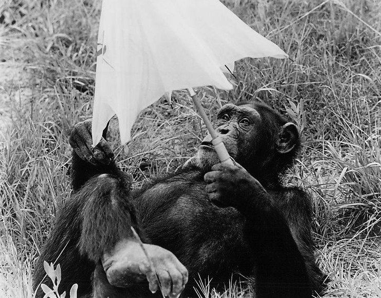 Photo of Judy the Chimp, who was a regular on the television series Daktari, on the set of the Ivan Tors television program Jambo.